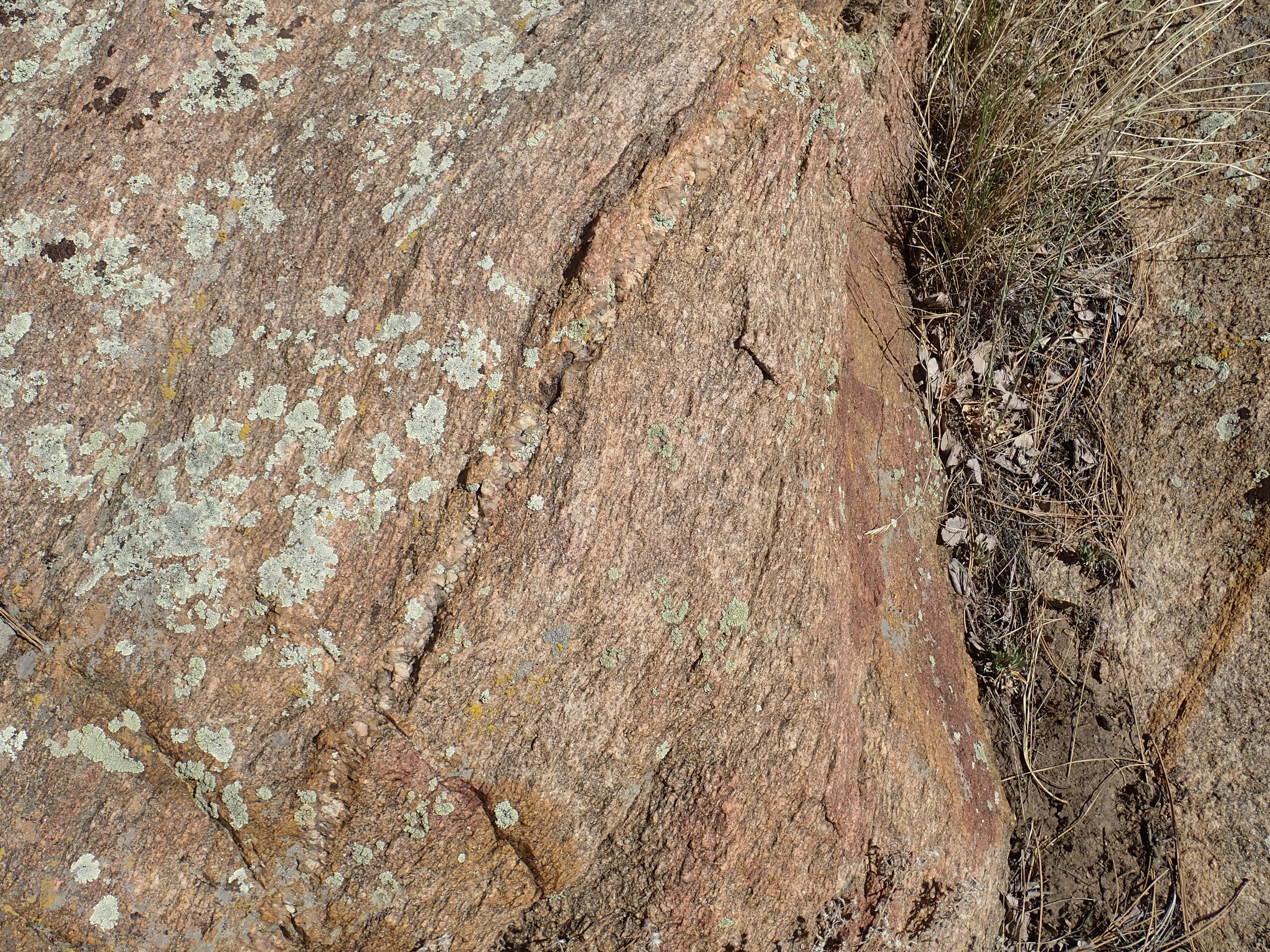 This image is a close view of an outcrop of the Tres Piedras Orthogneiss near the Tres Piedras post office, New Mexico, USA. The Tres Piedras plution has a radiometric age of 1.693 Ga, correspondingn to the Statherian, and may have been emplaced during the Yavapai or Mazatzal orogenies.